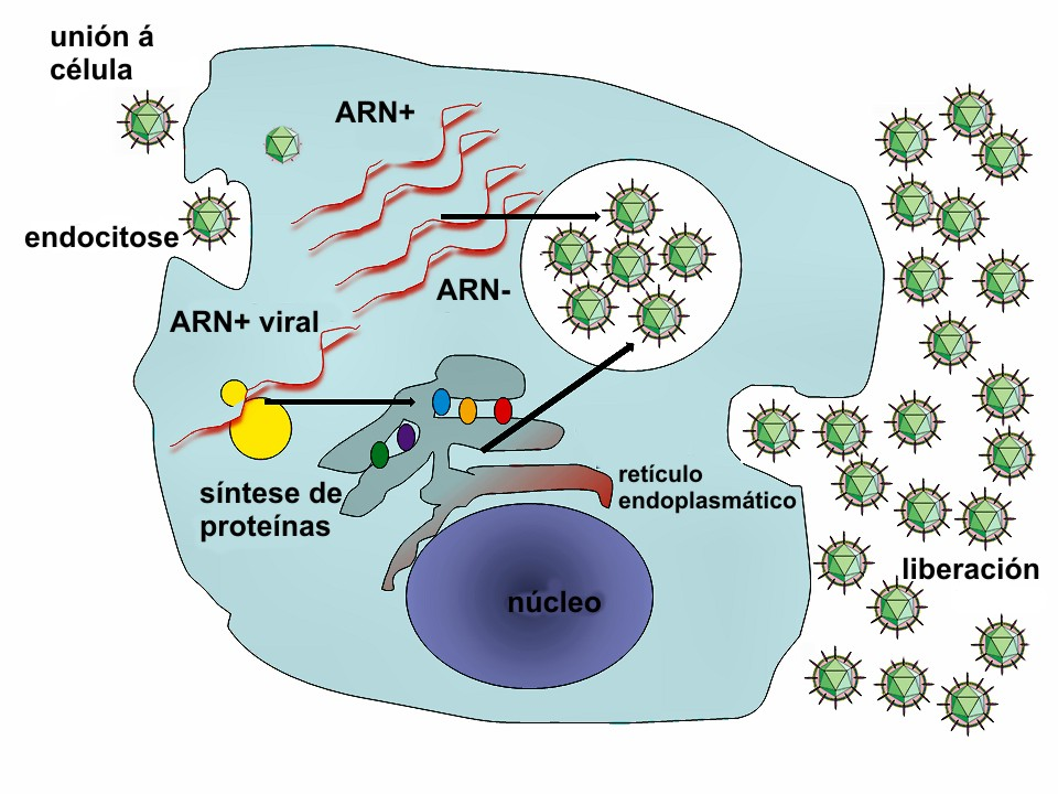 Hepatitis C virus replication cycle